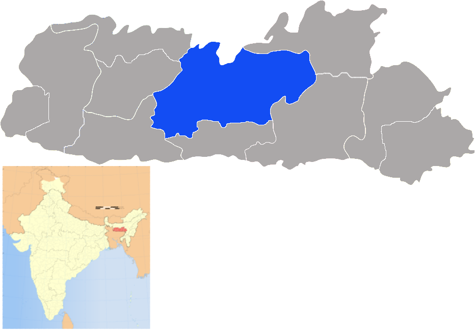 West Khasi Hills district of Meghalaya